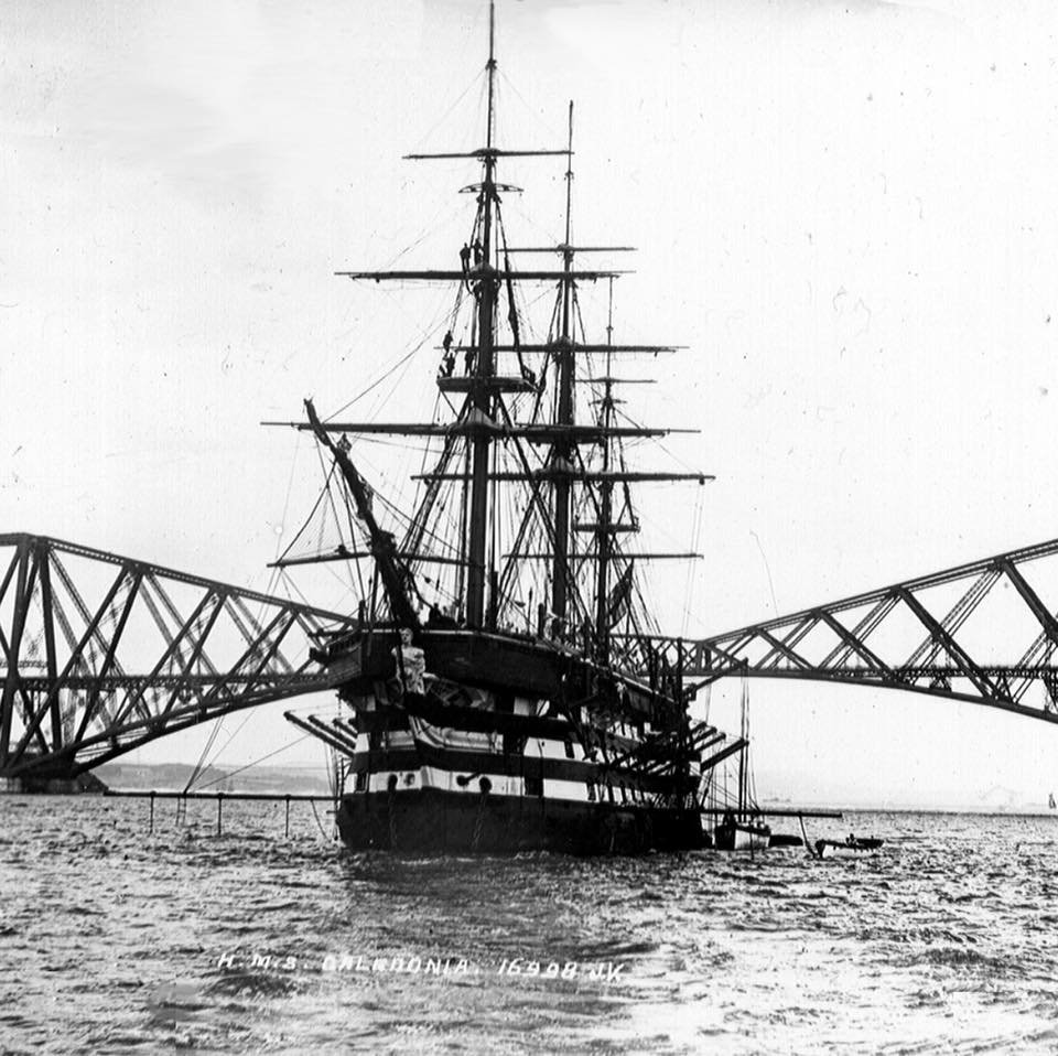 HMS Caledonia HMS Caledonia was a training ship launched in 1810 as the 98-gun second rate HMS Impregnable (1810). She became a training ship in 1862, was renamed HMS Kent in 1888, she was once again re-named, this time HMS Caledonia on 22 September 1891, and became a Scottish boys training / school ship moored at Queensferry in the Firth of Forth. As HMS Caledonia, she was to spend the next 15 years at anchor in the Firth of Forth, and was sold for breaking up in 1906.